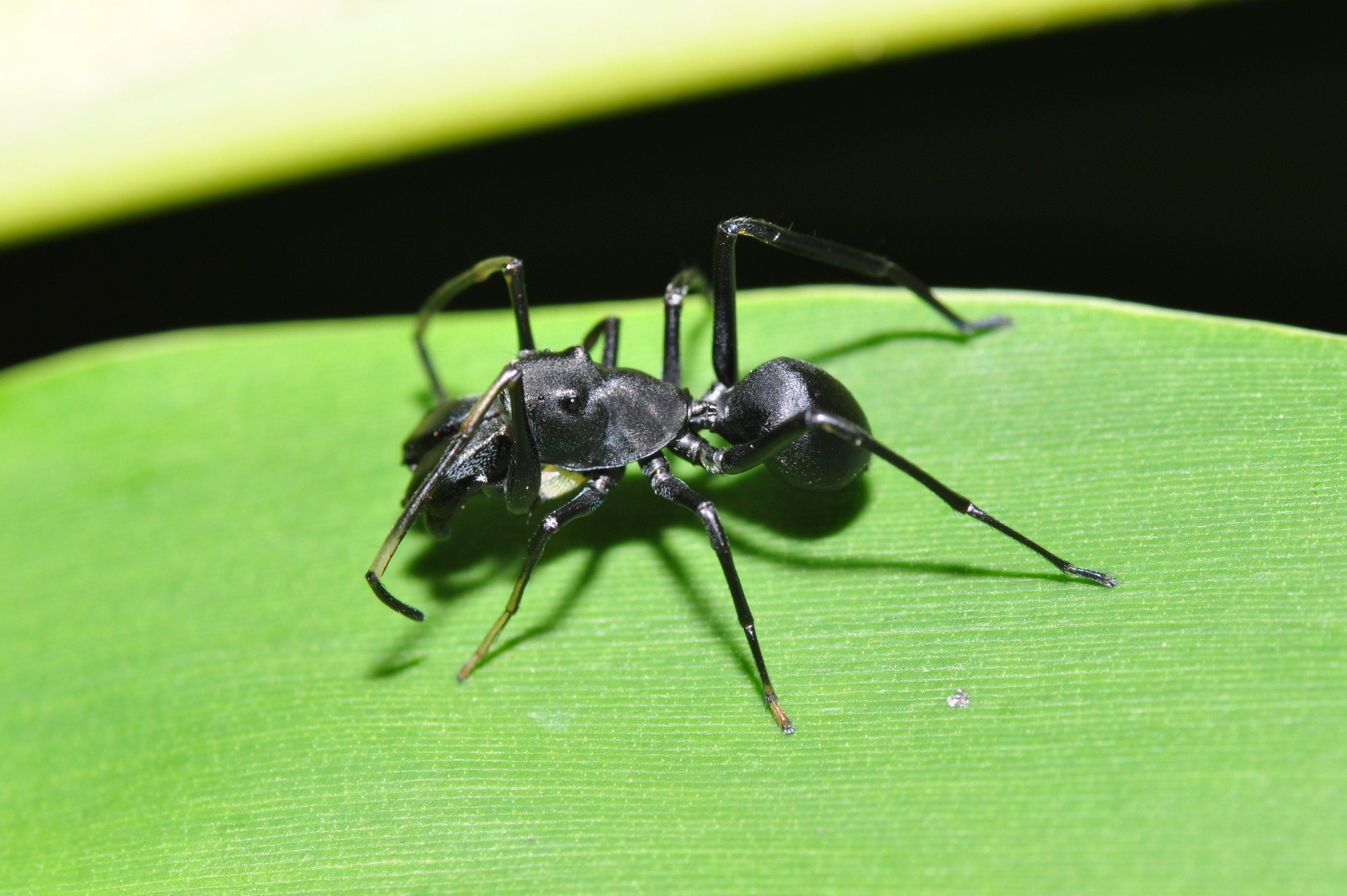 Ant-Mimic Jumping Spider (Myrmarachne sp)